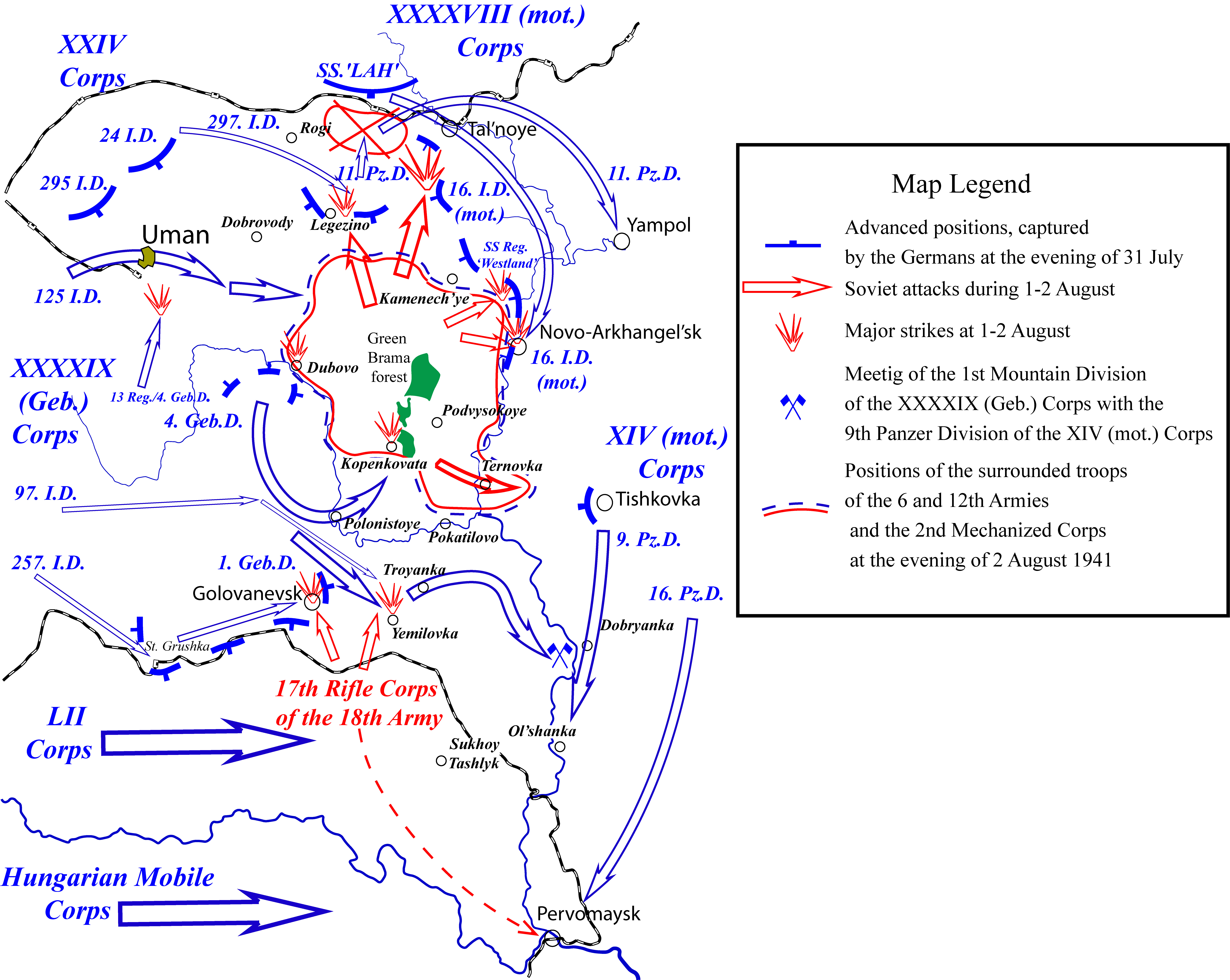 The environment of Soviet troops near Uman during the Battle of Uman (1-2 August 1941)